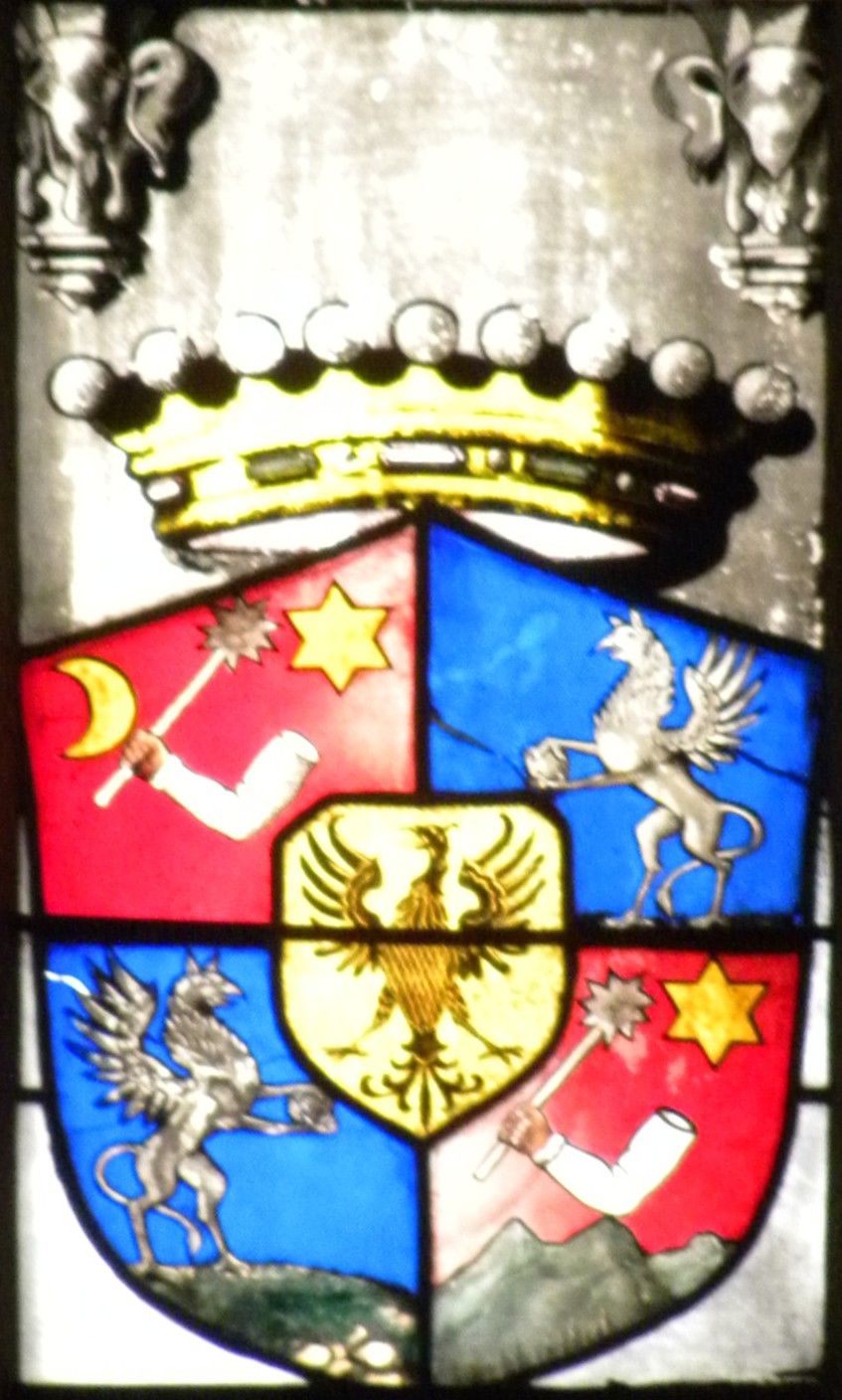 Coat of arms of Dessewffy family. Stained glass window in the presbytery of the Cathedral of St. Elisabeth, Košice, Slovakia.